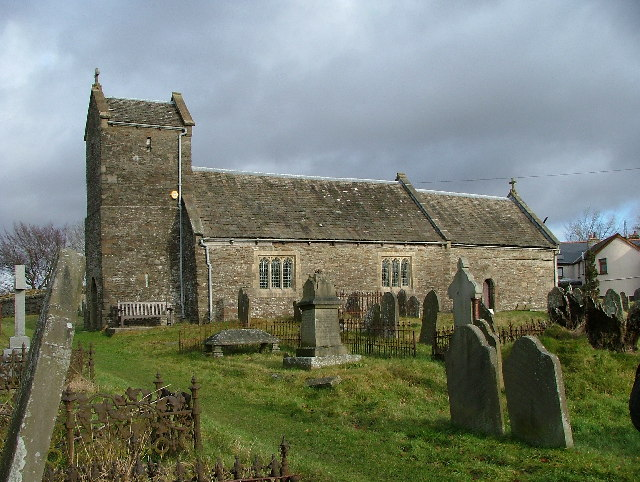 St Illtyds Church. Reported to be the oldest building in NW Gwent